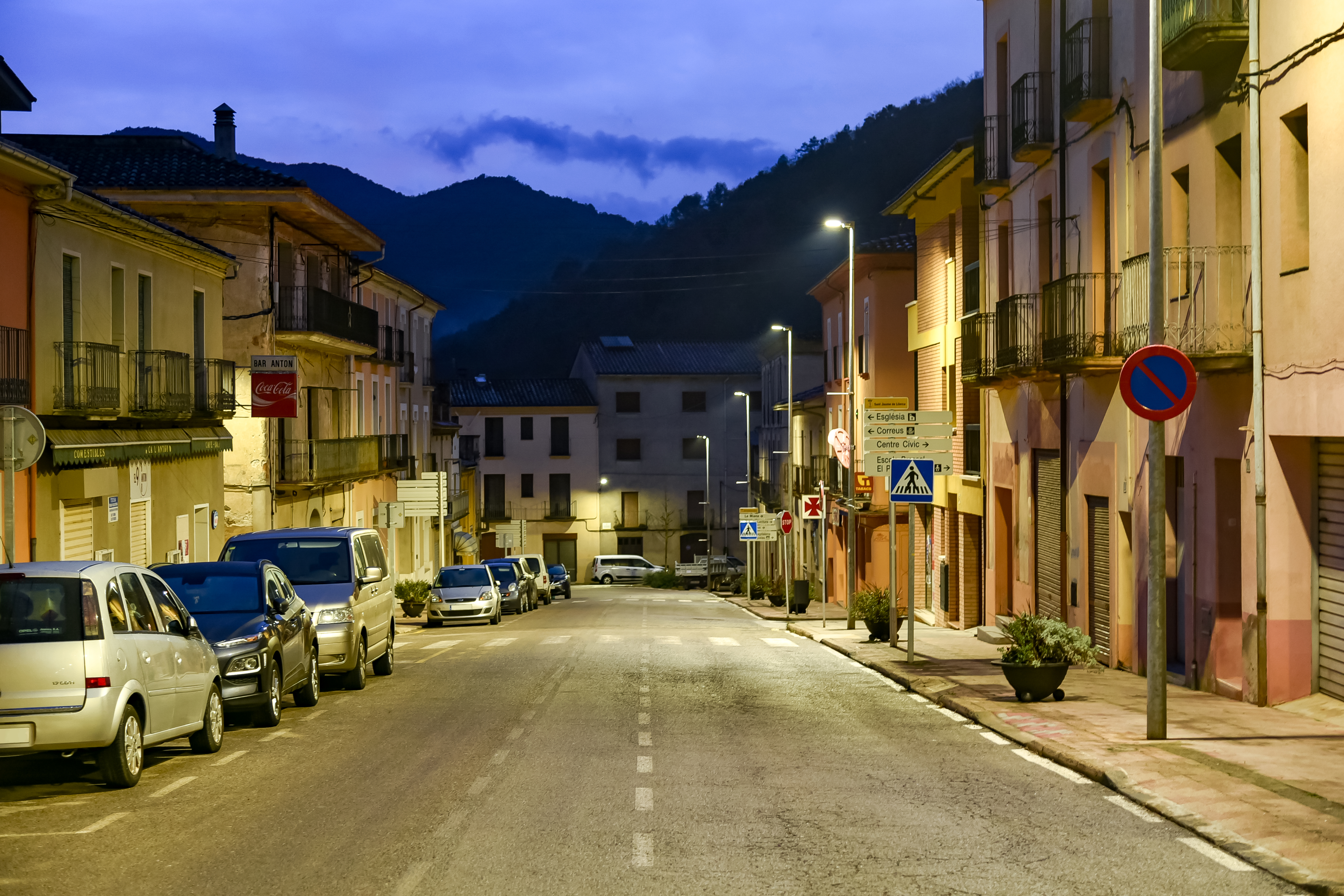 Carrer Major, Sant Jaume de Llierca (Girona)